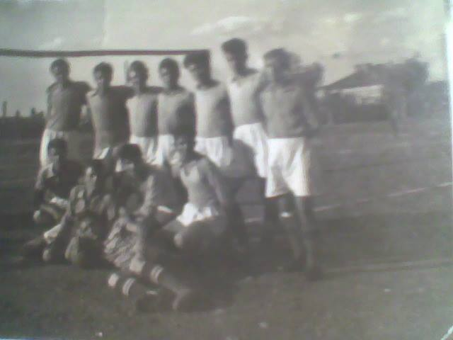 "Ботев"-Горна баня...1956г.